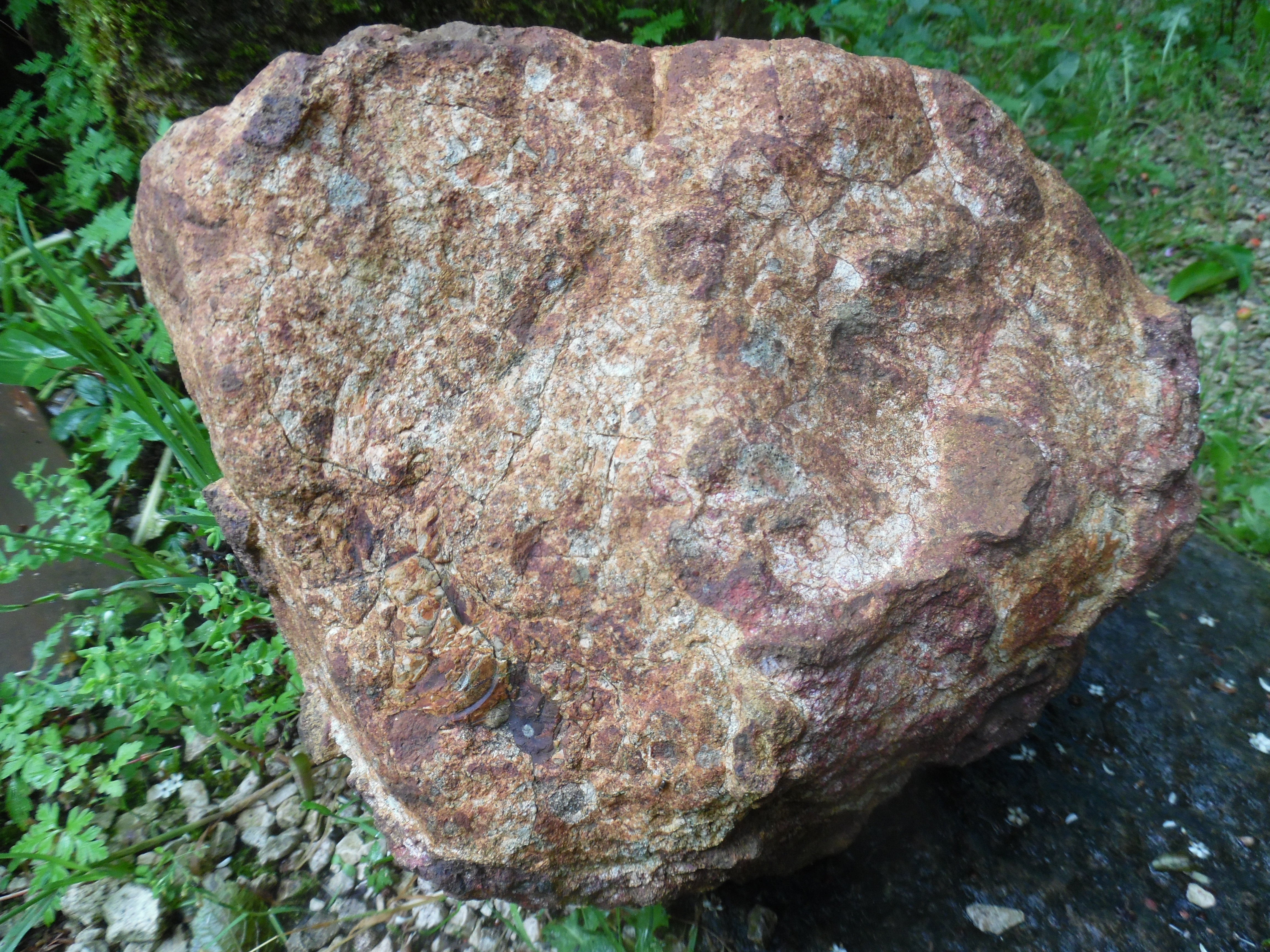 Big boulder of iron-rich Sidérolithique found in lacustrine clayey sands near Les Landes, Saint-Front-sur-Nizonne, Dordogne, France. Its origin is probably lateritic and its age is supposed to be Eocene/Oligocene.